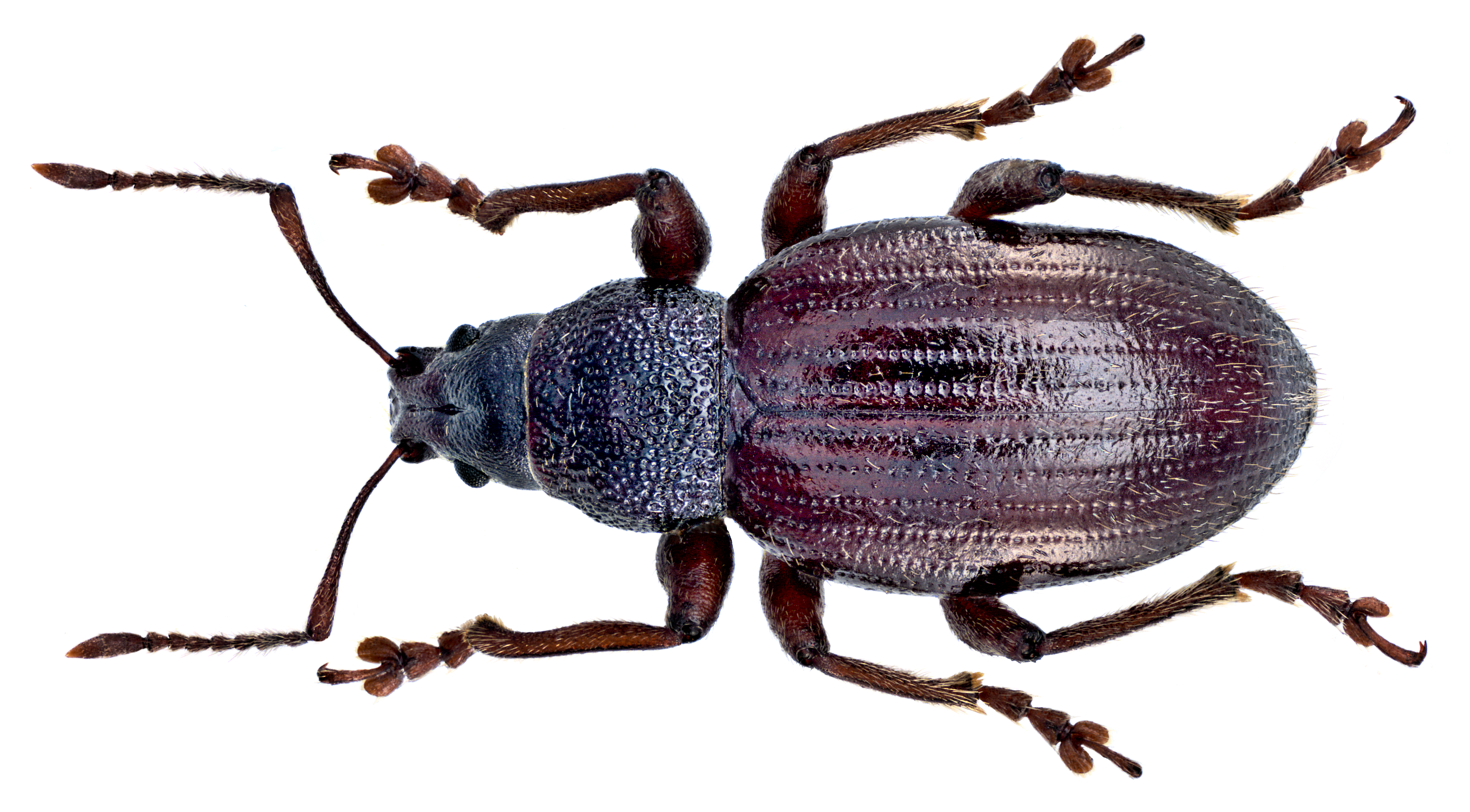 Family: Curculionidae Size: 6,7 mm Location: Spain, Canary Islands, Tenerife, Base del Teide, 2250 m leg. J.Schoenfeld, 7.IV.2004; det. Behne, 2005 Photo: U.Schmidt, 2014